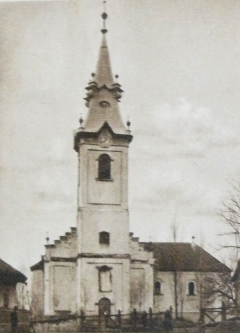 Reformed Church of Cigánd (Hungary) on the old post card